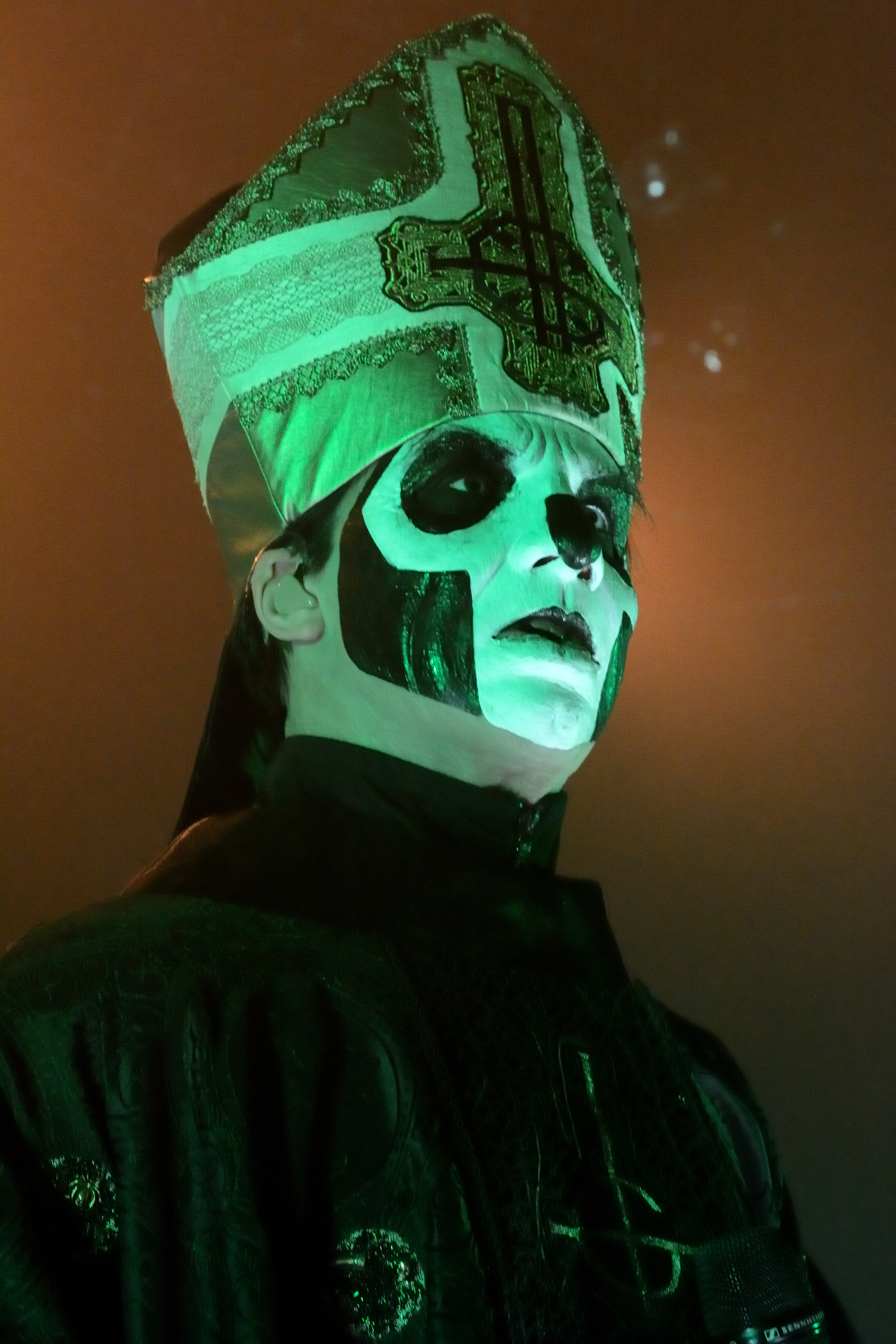 Papa Emeritus III performing with Ghost in 2016